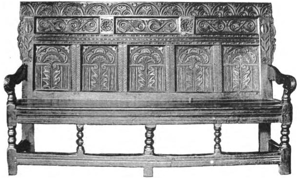 Seventeenth-century oak settle. In 1905 it belonged to Sir Charles Robinson, C.B. Dimensions: Length 70 inches, Height 41.5 inches, Depth from front to back 23 inches.